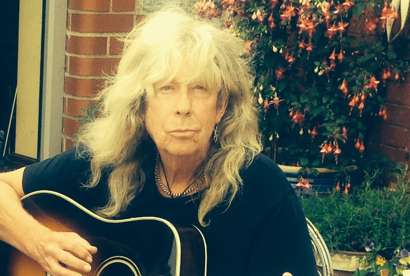 Rock musician Chris Bradford at his home in Curry Mallet, Taunton, Somerset, UK July 10th 2014. To used in [Chris Bradford (rock musician)] page.